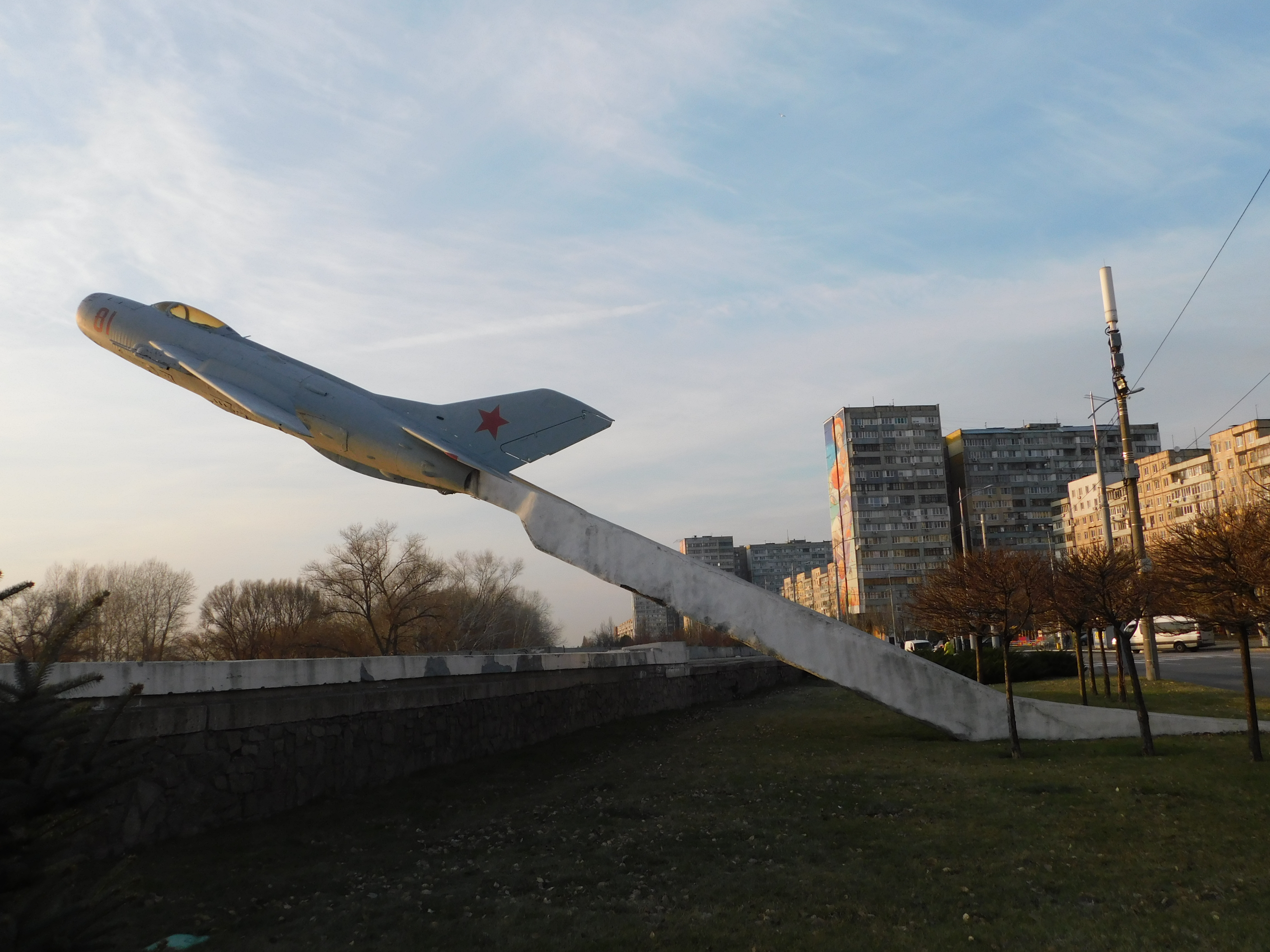 MiG-19 monument on 60 Marshala Malynovs'koho Street in Dnipro